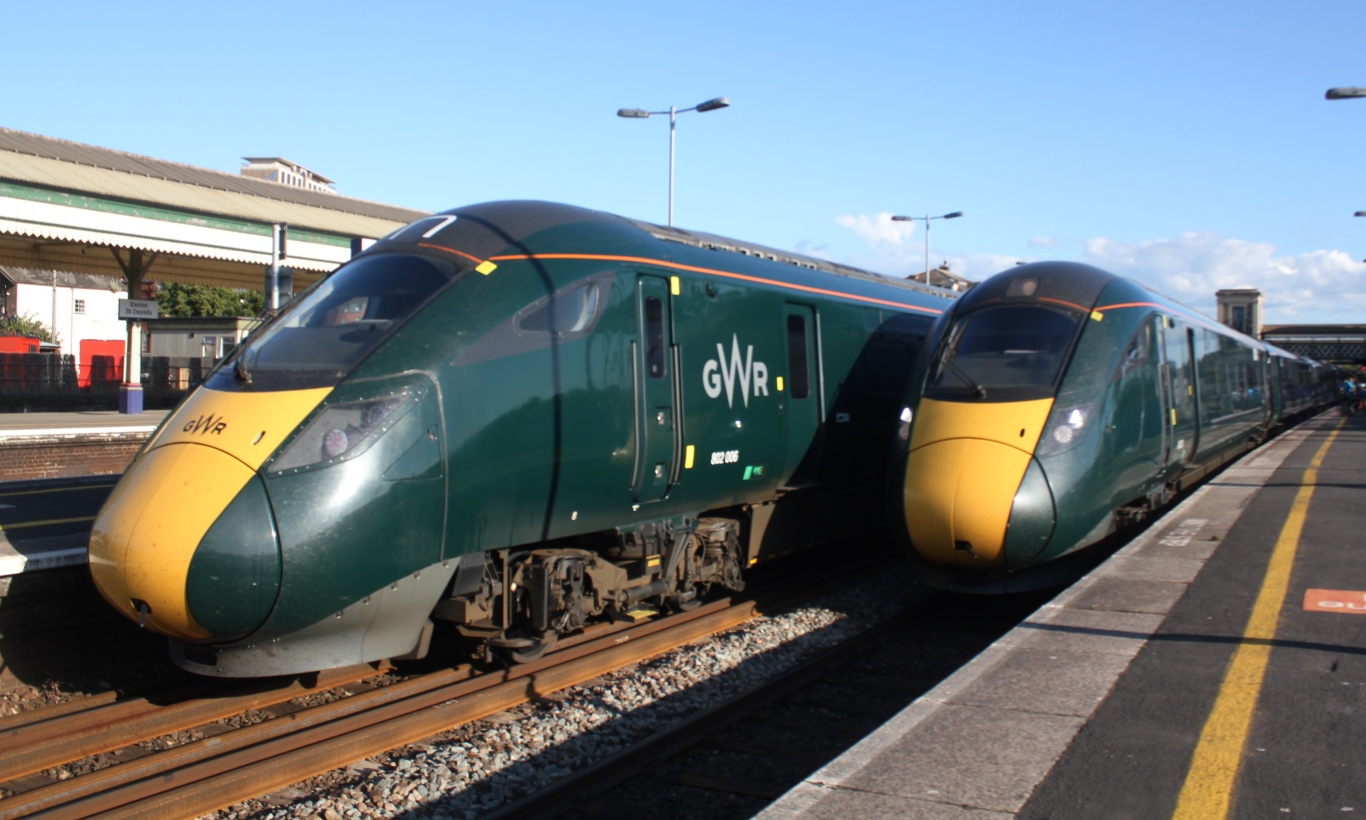 InterCity Express Trains at Exeter St Davids. 800312 (right) is one of the government-specified sets and is working a Paignton to Paddington service. 802006 (left) is one specified by Great Western Railway to work the steeper lines in Devon and Cornwall and is on a Paddington to Plymouth working.